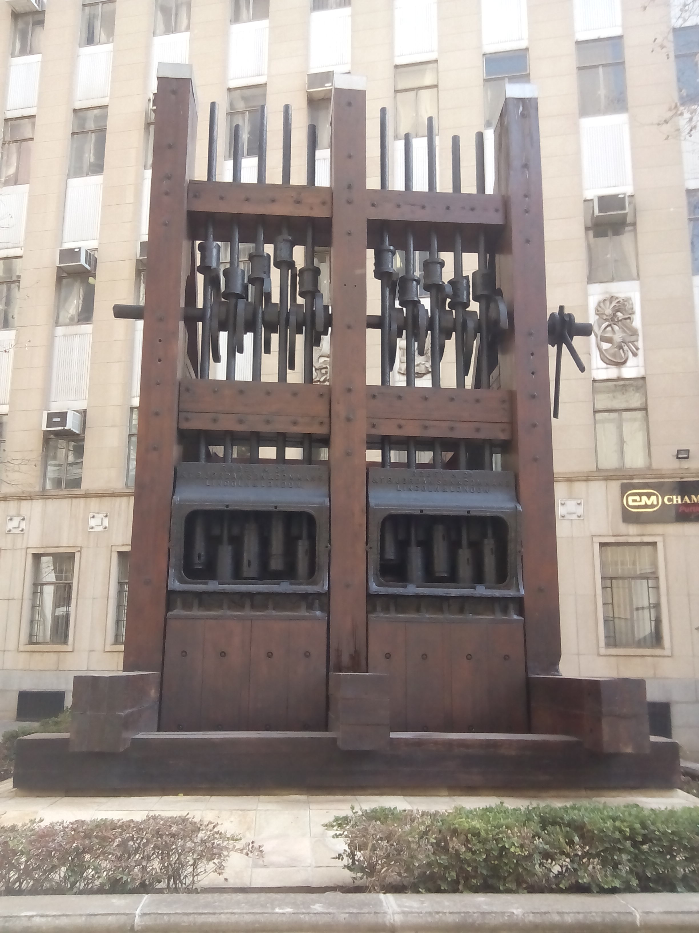 This is the Langlaagte Stamp Mill or Battery as they were called in the olden days. It is in Main street in Johannesburg.